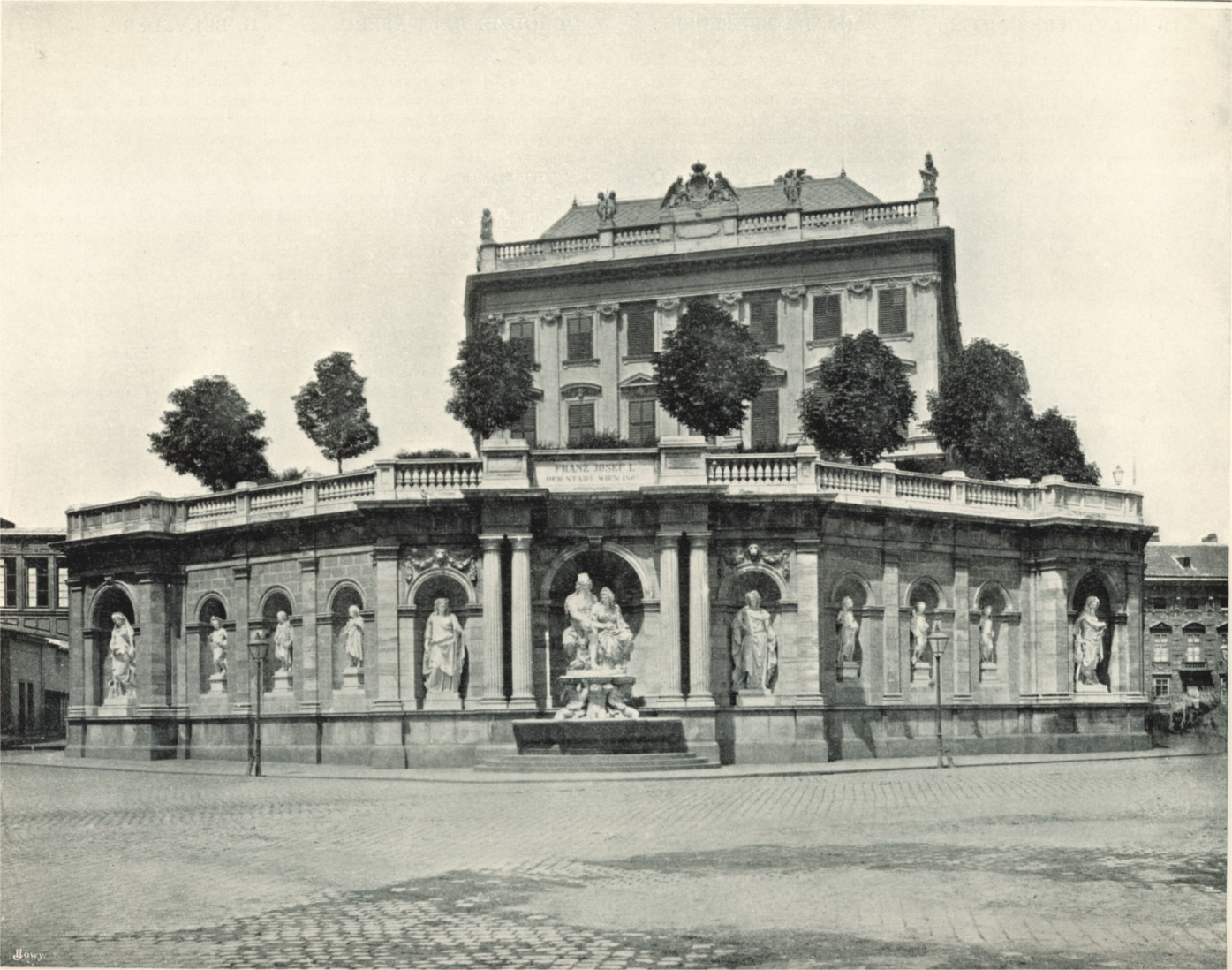 The Palais Erzherog Albrecht (Archduke Albrecht palace) and the Albrechtsbrunnen (albrecht fountain; in the foreground)